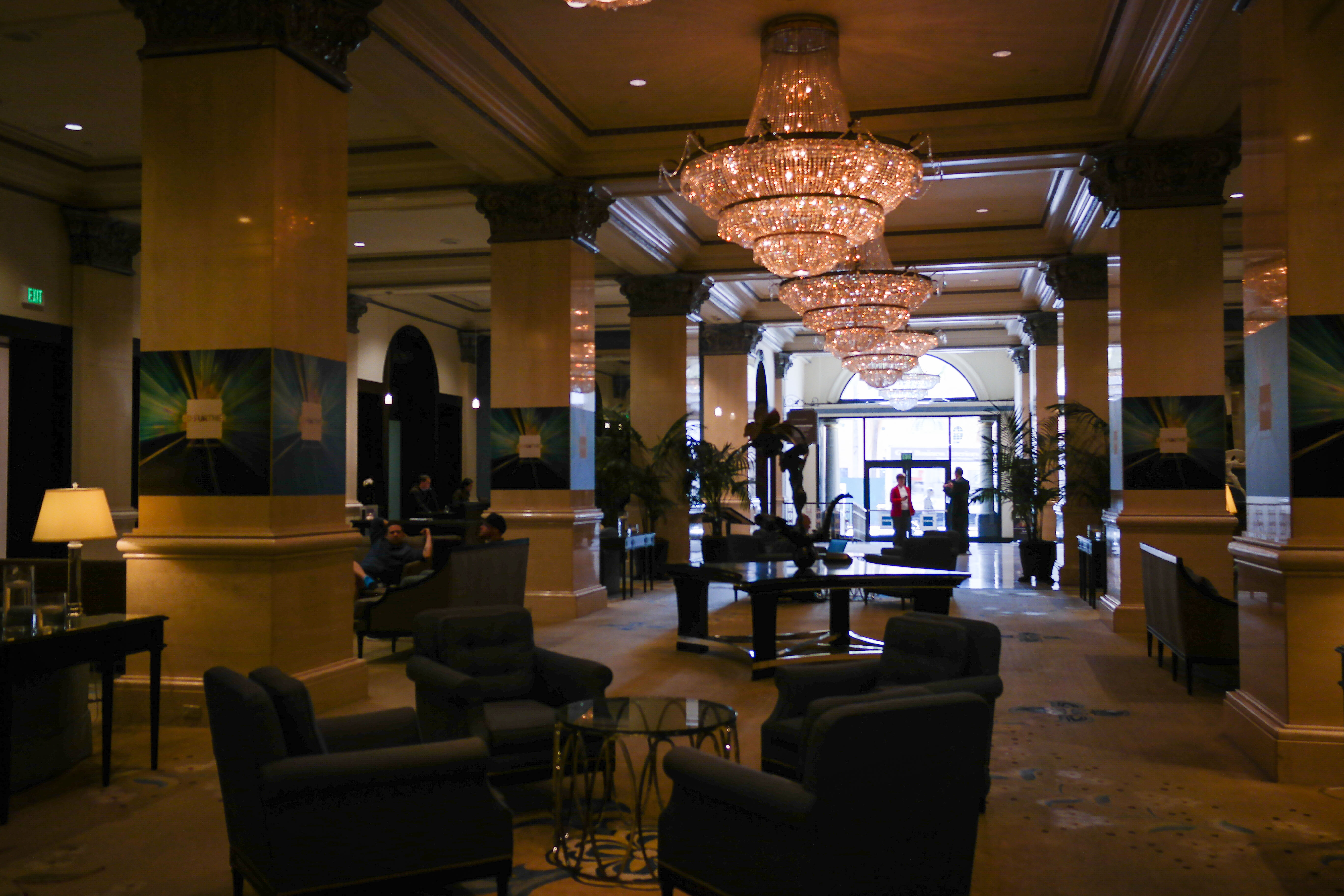 The lobby of the U. S. Grant Hotel in San Diego, California